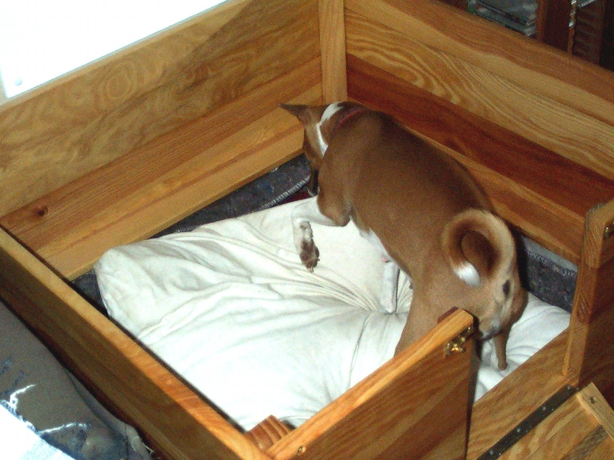 Kuta inspecting her whelping box.